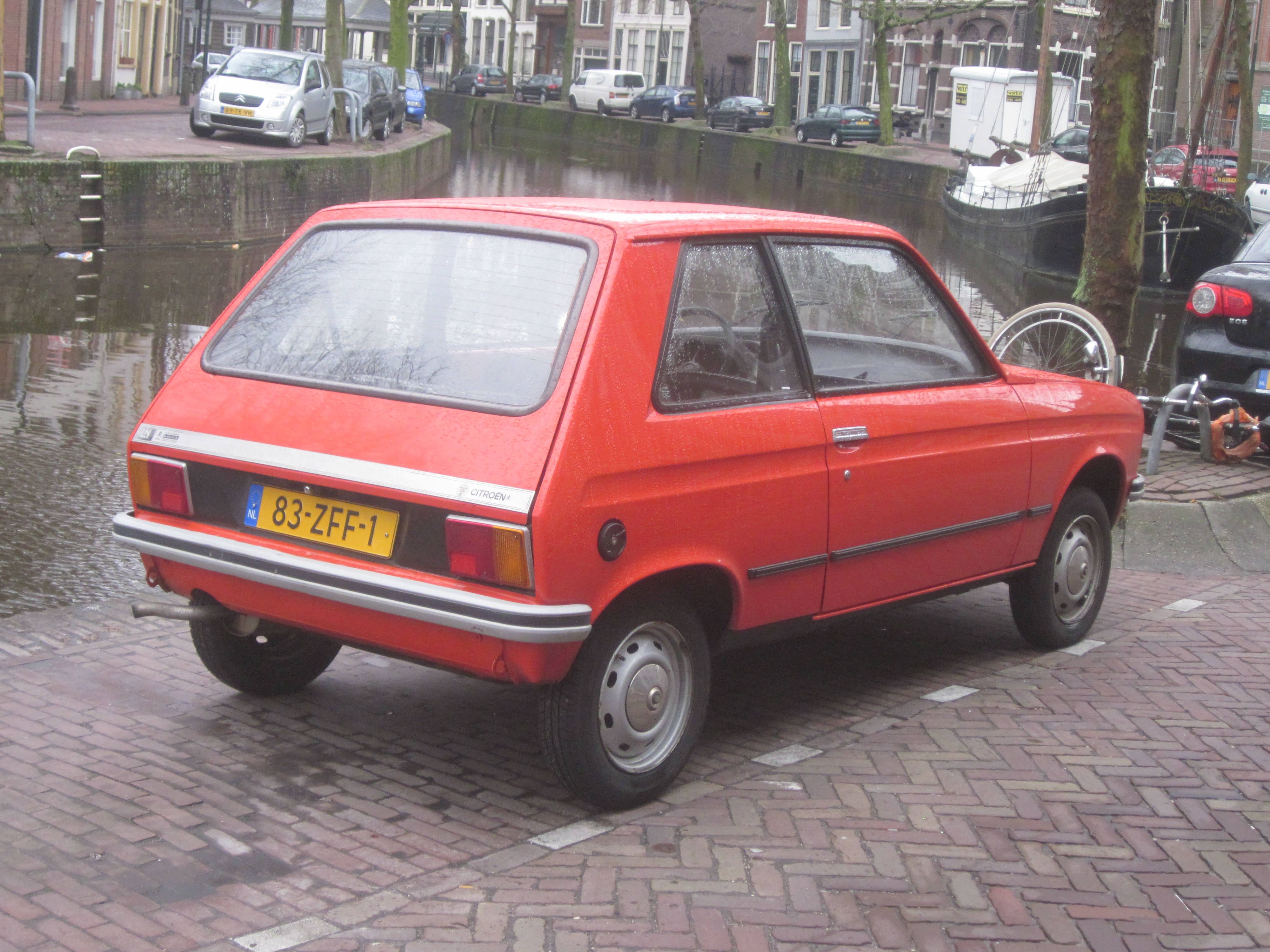 Citroën LN